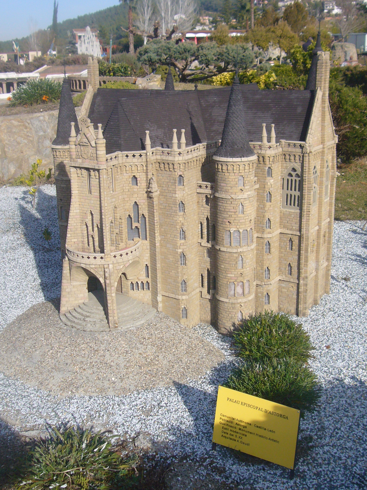 Scale model at the "Catalunya en Miniatura" miniature park : Episcopal palace of Astorga